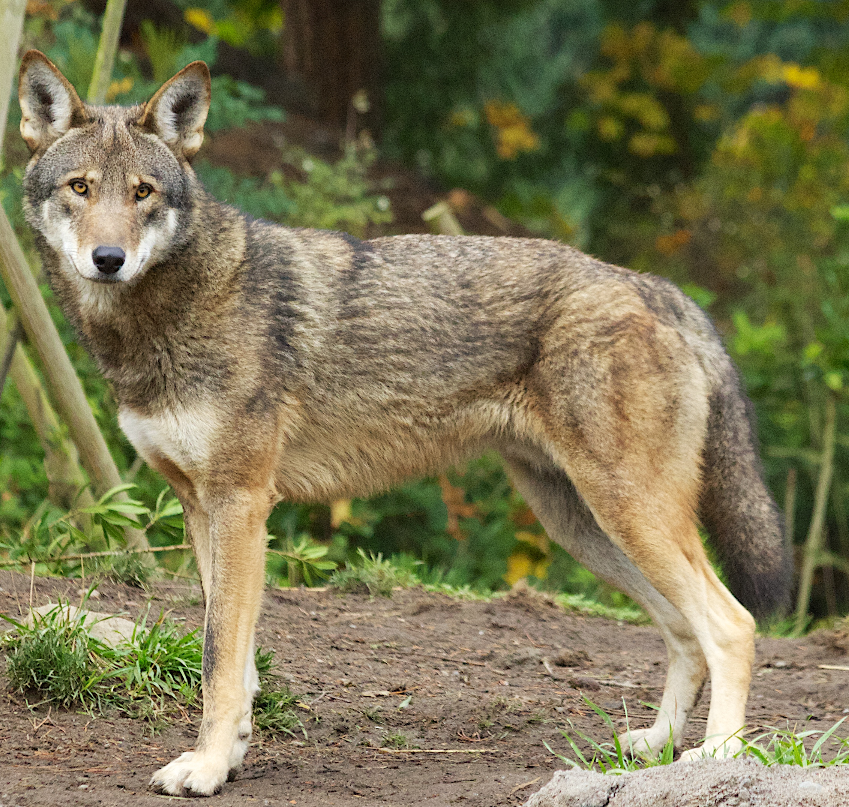 Captive red wolf at Species Survival Plan facility, Point Defiance Zoo and Aquarium (Tacoma, WA).